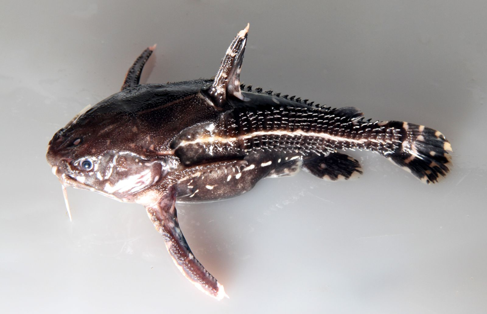 Acanthodoras spinosissiums from Brazil